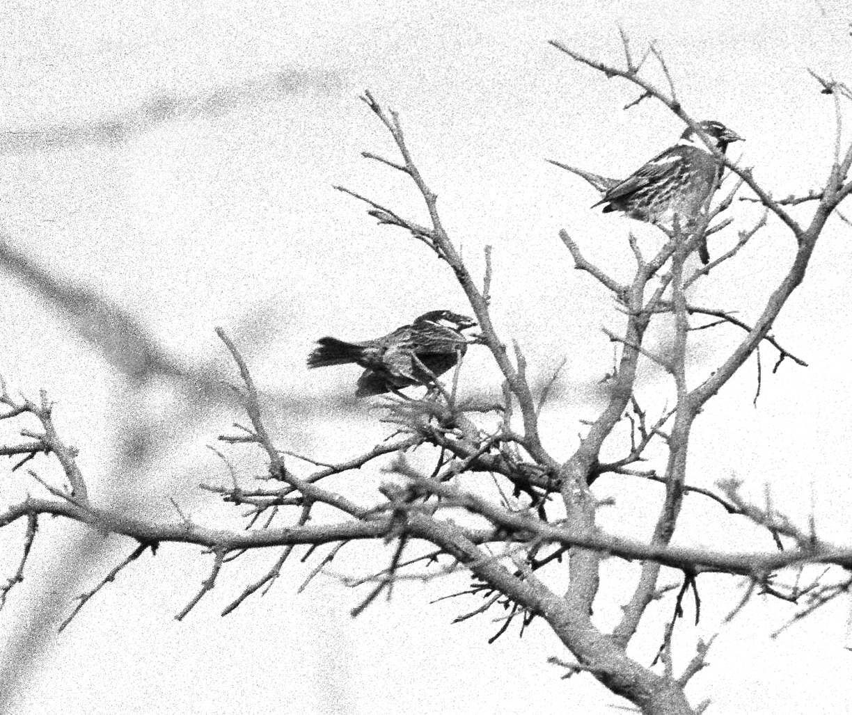 Two Male Spanish Sparrows displaying in an acacia hedge in April 1983 at Es Senia, Algeria